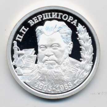 Avers: writer P.P. Vershigora’s portrait, a World War II hero, framed with a laurel wreath to the right.To the left a composition consisting of a pile of books and a submachine gun; the upper book is open with text in Cyrillic: "ЛЮДИ С ЧИСТОЙ СОВЕСТЬЮ" (PEOPLE WITH CLEAR CONSCIENCE). "П.П. ВЕРШИГОРА" (P.P. VERSHIGORA) is in a semicircle above the image, an inscription "1905-1963" indicating his life time is at the bottom.